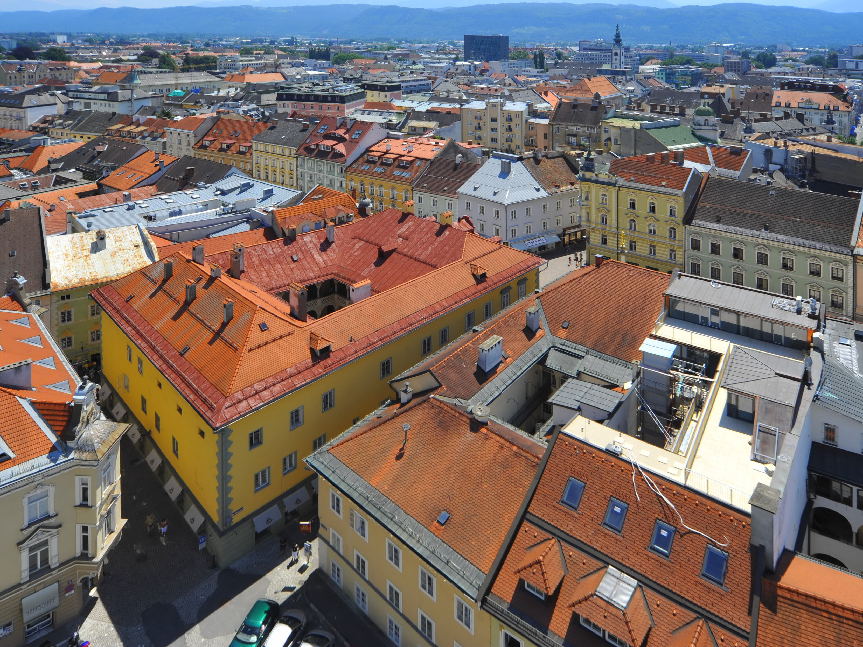 Aerial view (from the city parish church`s balcony of the bell tower) of the palace Rosenberg, former town hall on Alter Platz #1, inner city, Klagenfurt, Carinthia, Austria, EU